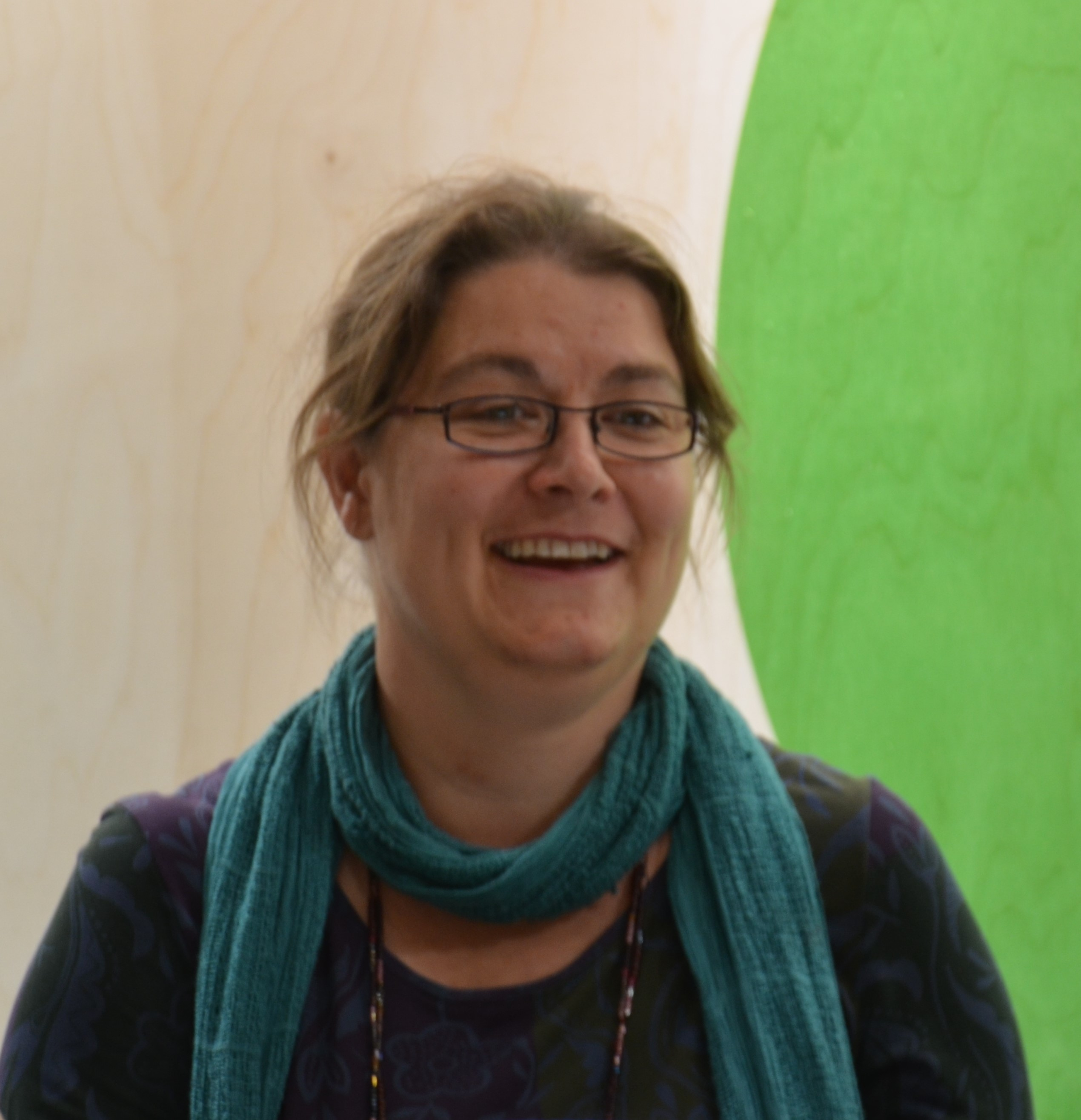 Karoliina Pertamo på Bokmässan i Göteborg 2014